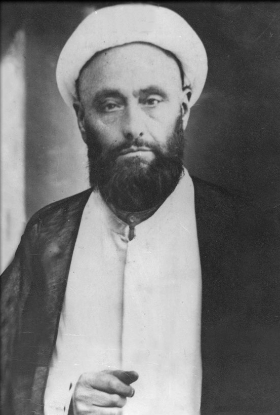 Mirza Mahdi Isfahani (Persian: میرزا مهدی اصفهانی), the founder of Mashhad School (Maktab-e Tafkik)